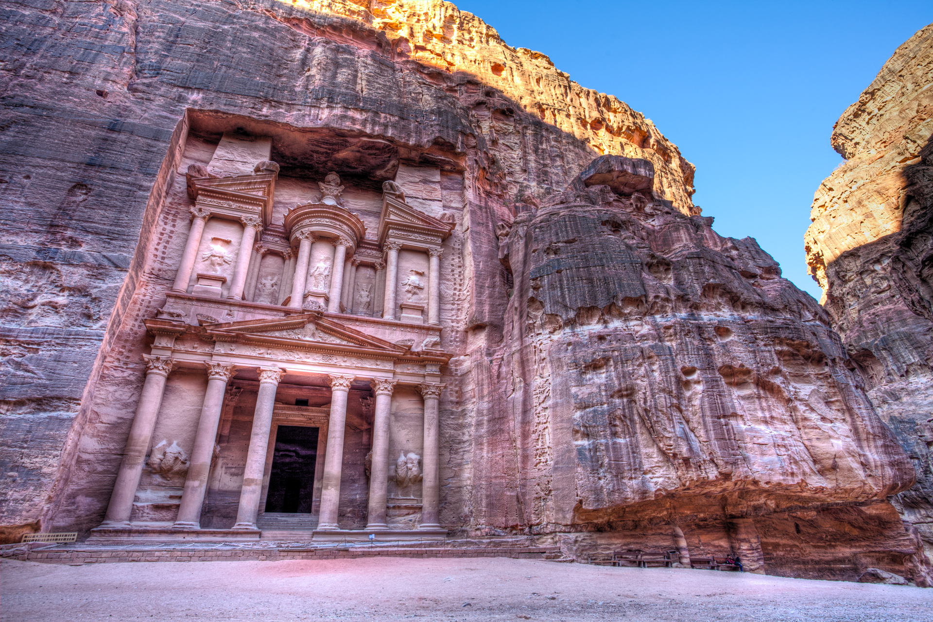 This is the Treasury at Petra, in Jordan. Photograph by Anne Dirkse